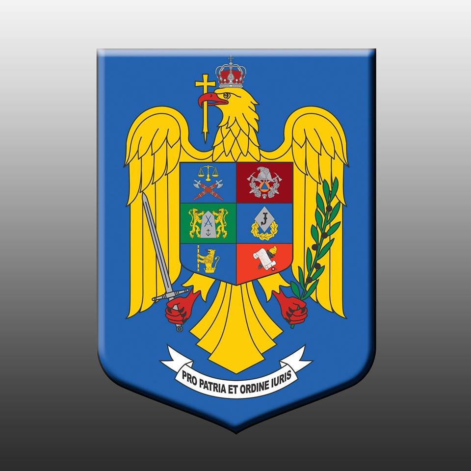 Ministerul Afacerilor Interne